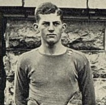 Kentucky and Vanderbilt athlete Tom Zerfoss in football uniform